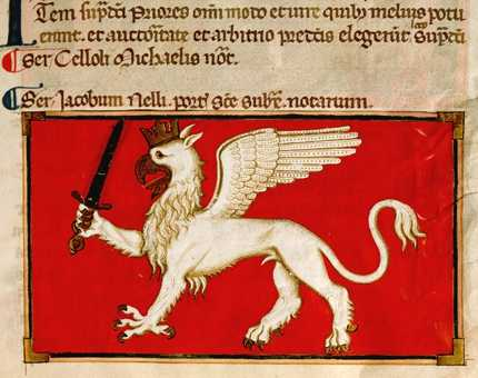 Griffin of Perugia from a medieval code